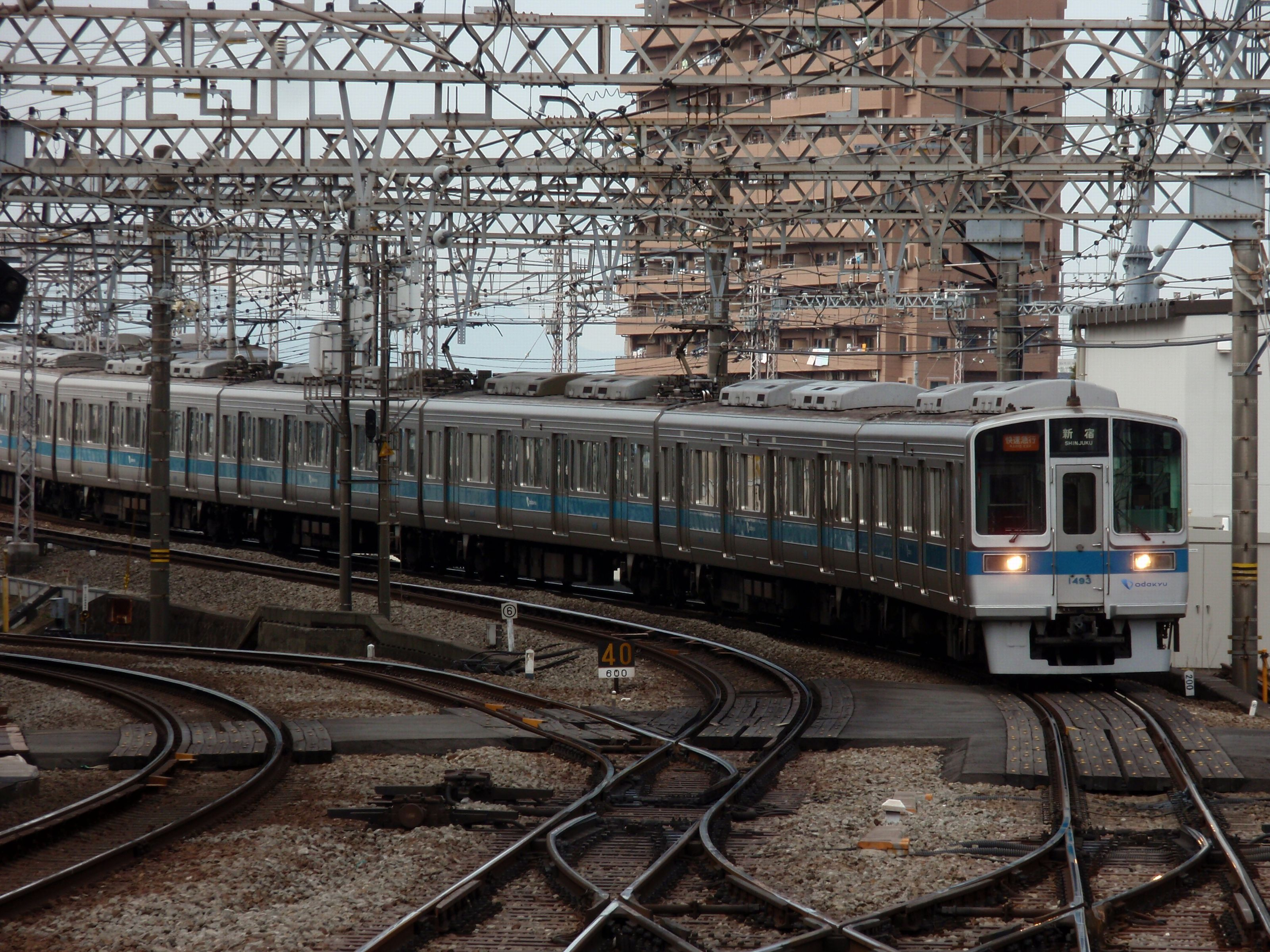 Odakyu Electric Railway type 10000 series at Fujisawa Sta.